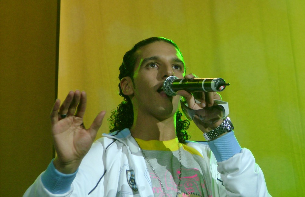 Dutch Rapper Ali B, September 13, 2008